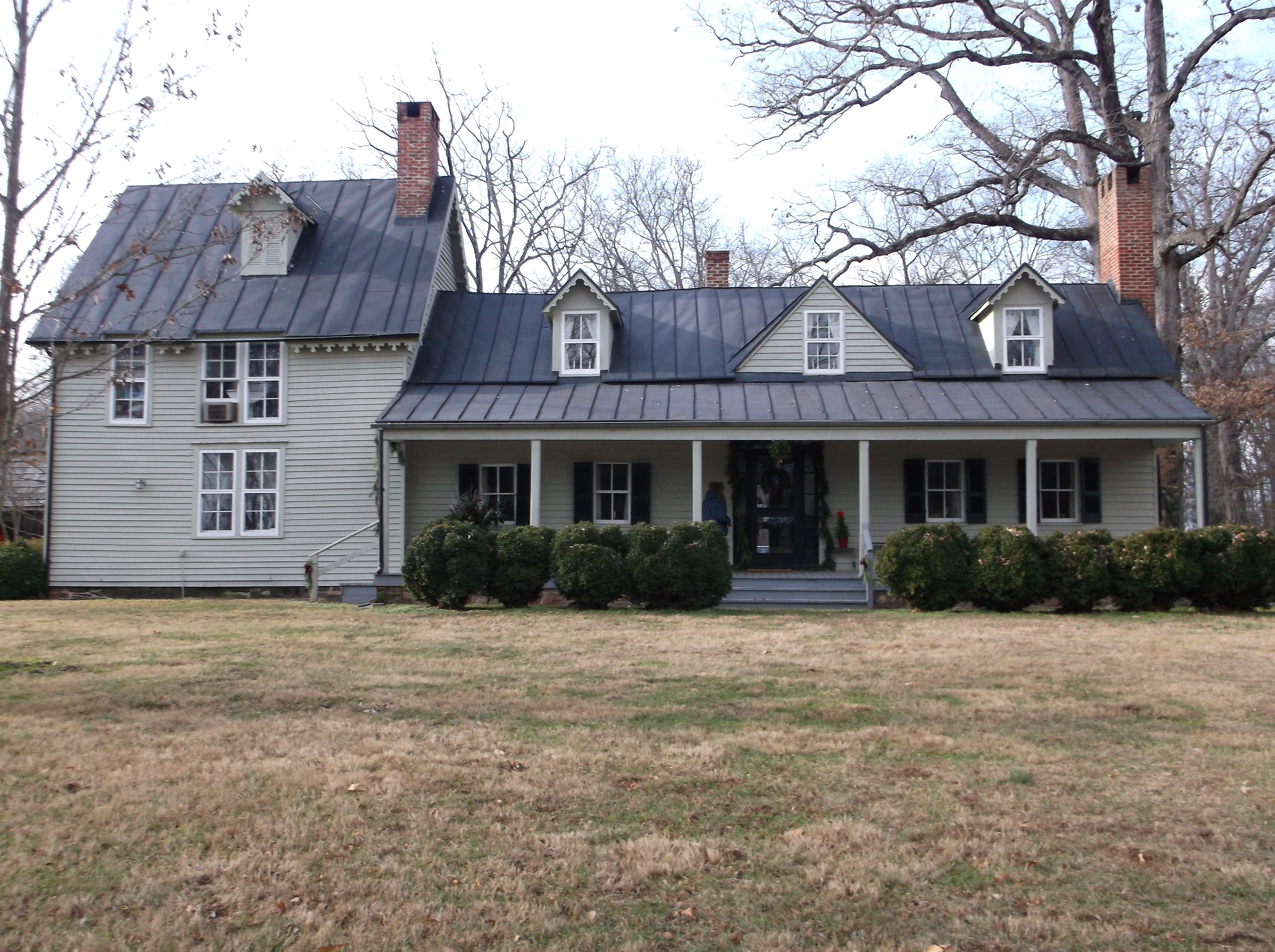 Main house of the Weston farm in Casanova, Fauquier county, Virginia, listed on the National Register of Historic Places in 1996.